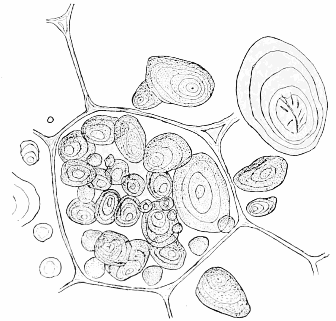 Starch granules of the potato